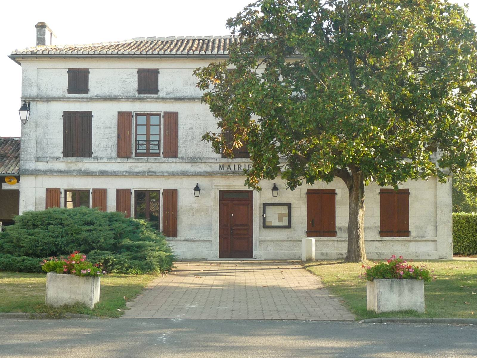 Town hall of Balzac, Charente, SW France